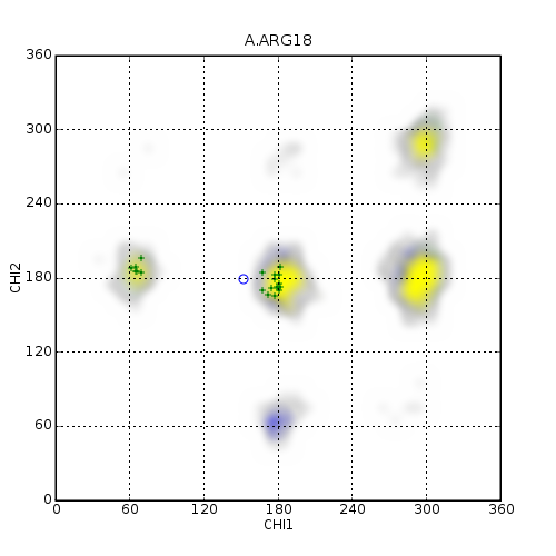 Correlation plot of chi 1 and 2 for PDB entry 1y4o, chain A, residue Arg number 18.